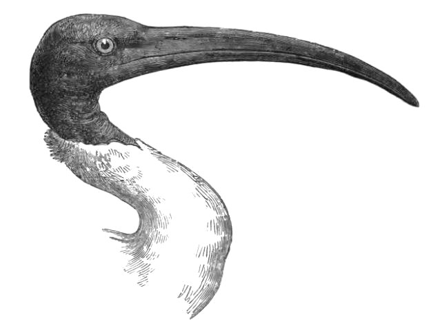 Madagascar Sacred Ibis Threskiornis bernieri